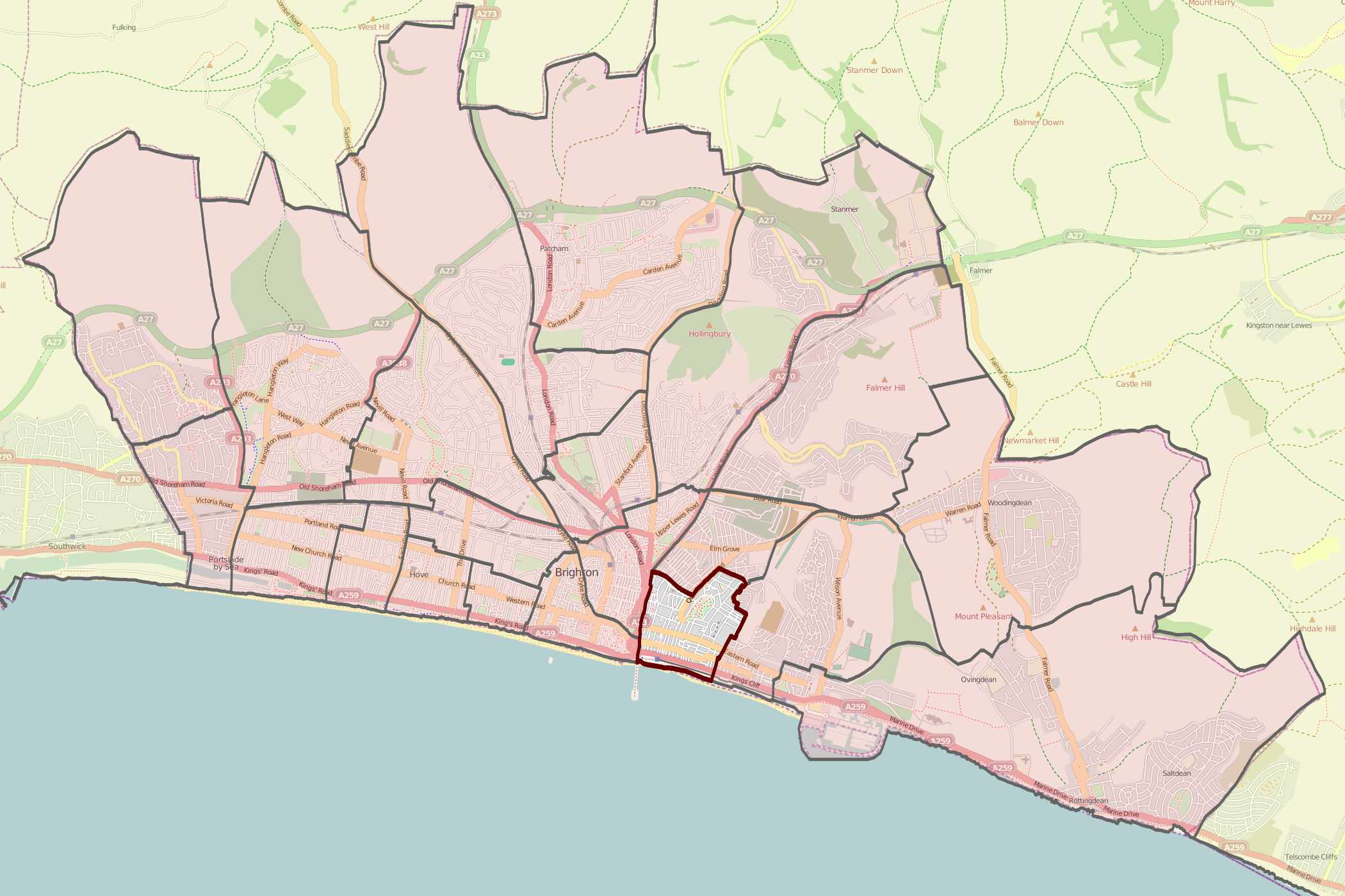 Map of Brighton and Hove wards with one ward highlighted